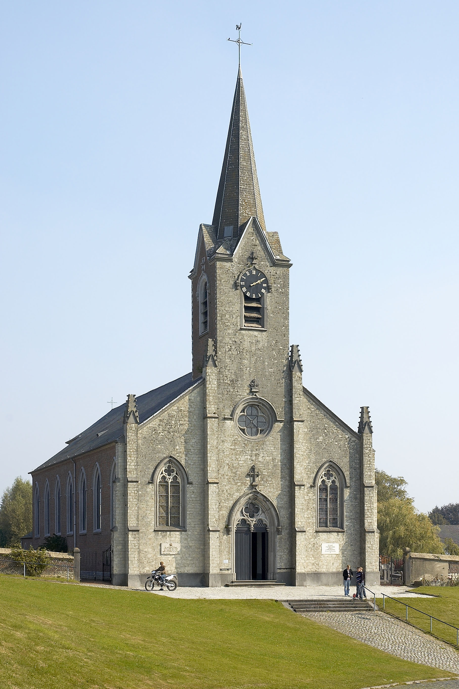 Church in Plancenoit (Lasne), Belgium